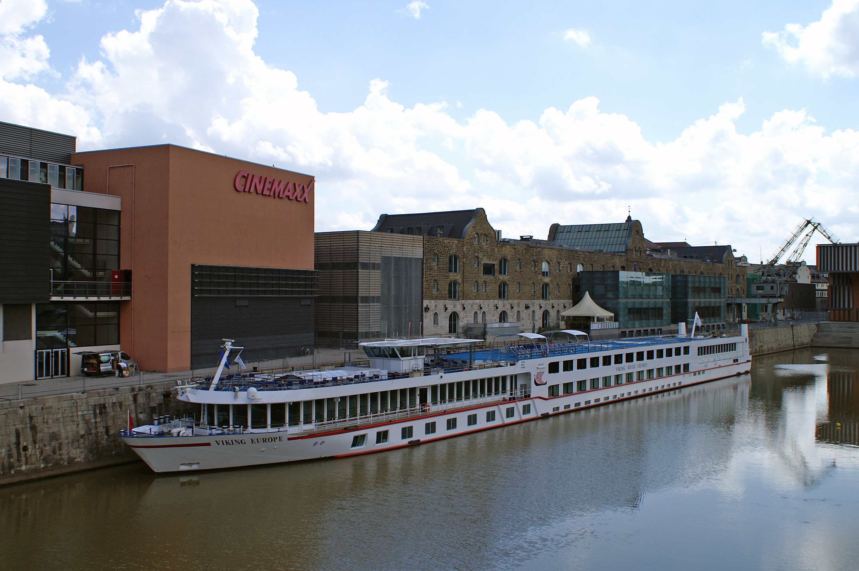 River cruise ship Viking Europe in Würzburg.